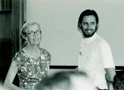 Photo of Mary Cartwright and Charles Pugh